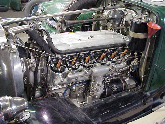 Nearside view of very rare Daimler Double-Six Thirty (tax horsepower) 3.7-litre sleeve-valve V12 engine 1926 model "under maintenance" "The engine - a sleeve-valve V-12 - came in boxes and there are no instructions for this sort of thing!"